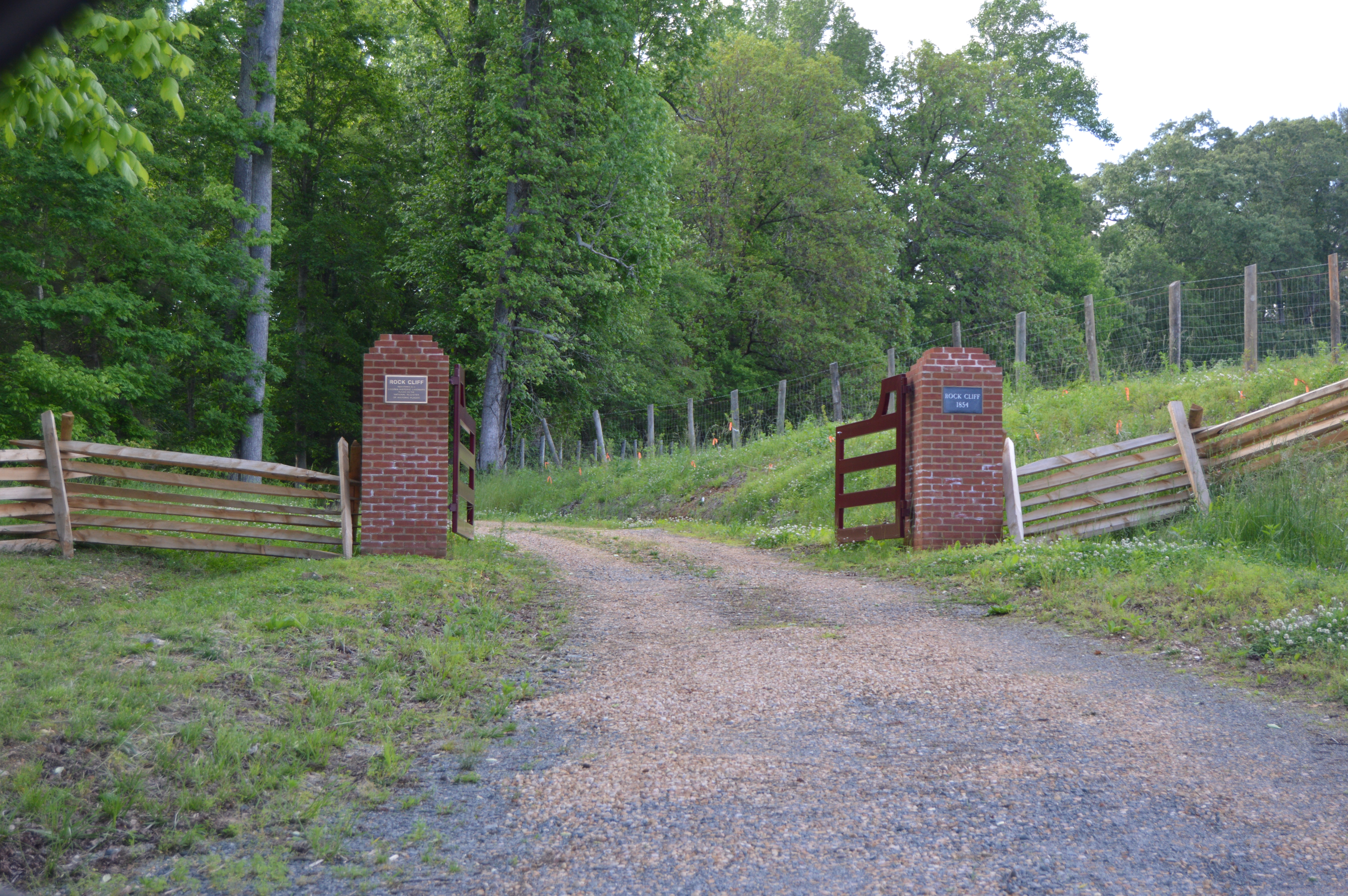 Entrance to the Rock Cliff estate, located on Norwood Road west of Wingina in Nelson County, Virginia, United States. The estate is listed on the National Register of Historic Places.